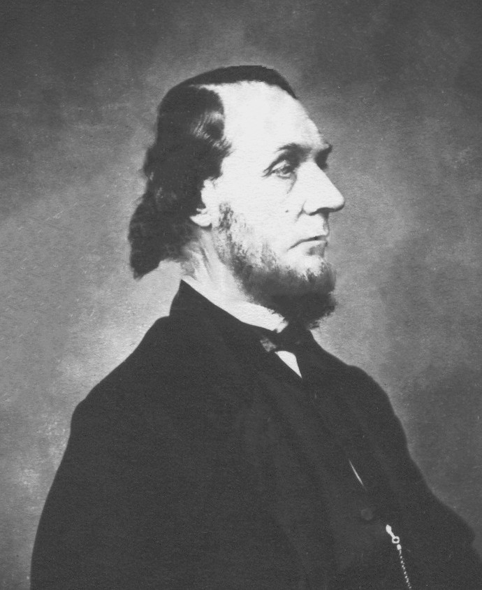 Anthony Thornton (1814-1904)